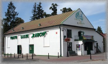 Puppet theater "Rabcio" in Rabka-Zdrój